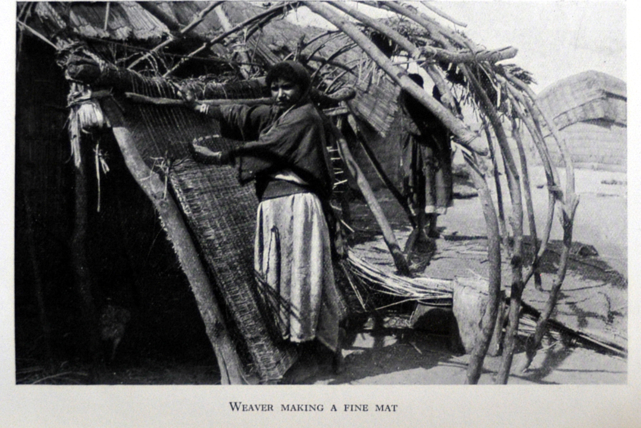 Woman weaving papyrus mat, Al-Salihiyya, Palestine, circa 1936.